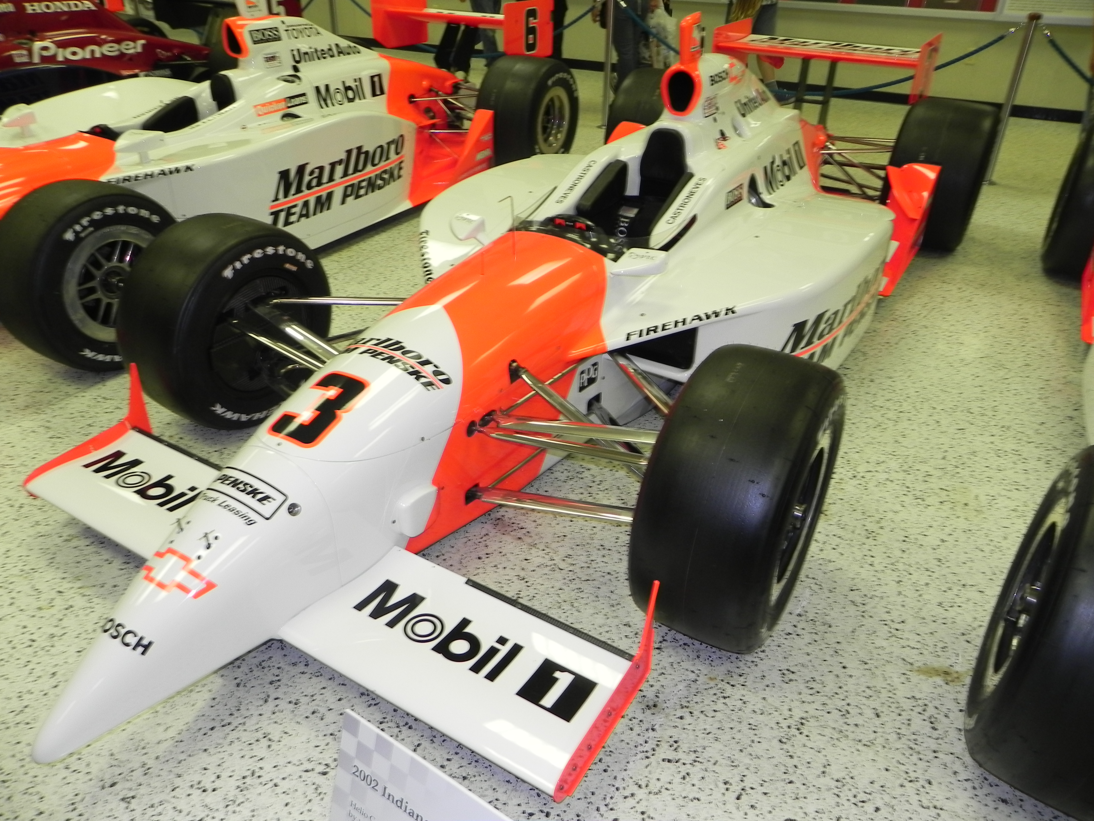 Image of the winning car of the 2002 Indianapolis 500 (Helio Castroneves). Photo was taken at the Indianapolis Motor Speedway Hall of Fame Museum, during the month of May 2011, at the 100th Anniversary "Ultimate Indianapolis 500 Winning Car Collection."